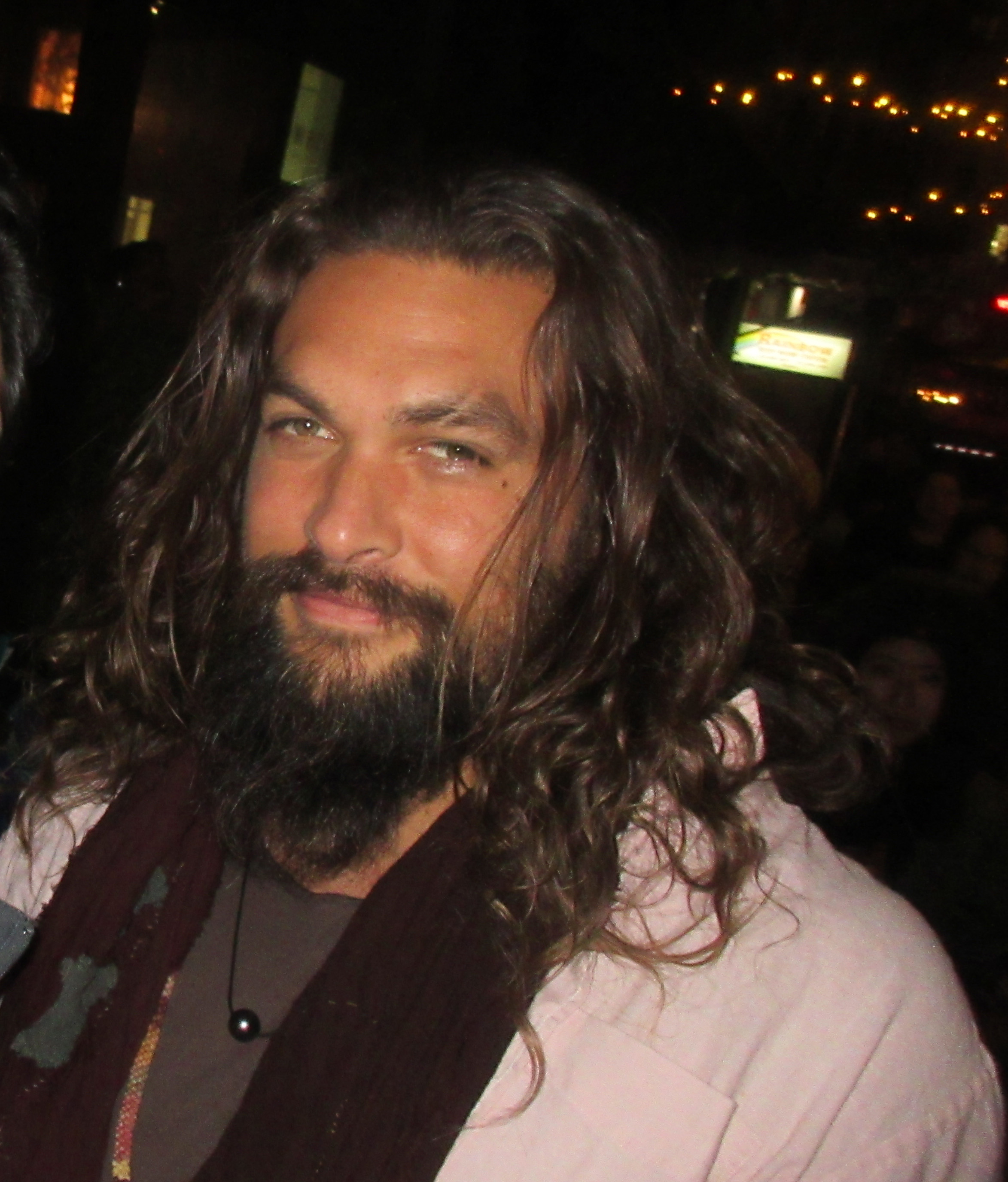 Star of Aquaman and Stargate Atlantis. NYC Dec '18.